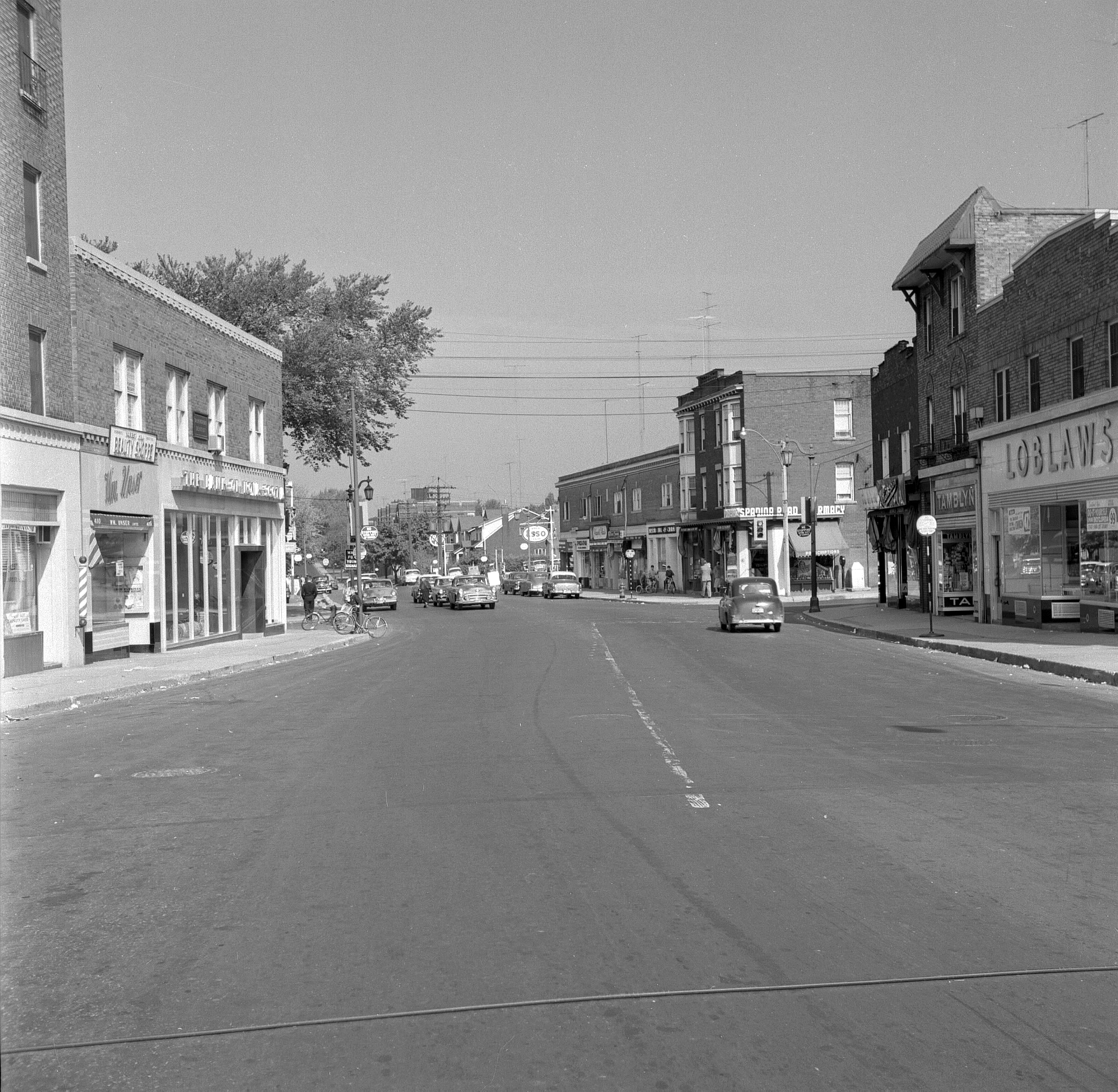 This Saturday, our Forest Hill branch turns 60! It was opened on December 5, 1955, so we thought we'd post a shot taken near there (looking north along Spadina from about Lonsdale Avenue) that same year. It's a great street scene, too, with neighbours chatting and kids tearing about on bikes. There's even a lady walking down the road. Creator: Salmon, James Victor (Canadian, 1911-1958) Date: 1955 Identifier: S 1-3266 Format: Picutre Rights: Public domain Courtesy: Toronto Public Library. More information: (view details and larger image)